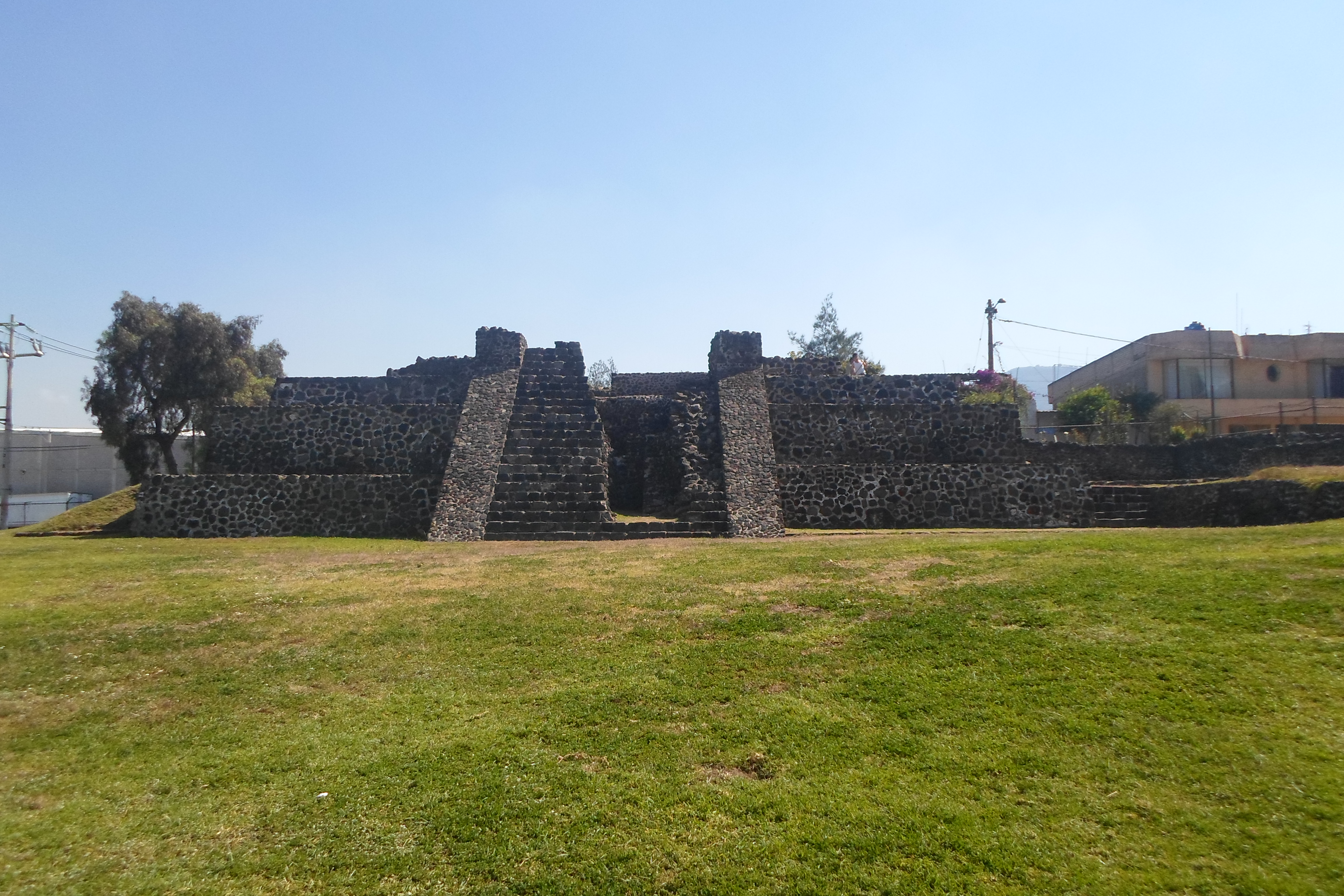 Piramid in Los Reyes, La Paz